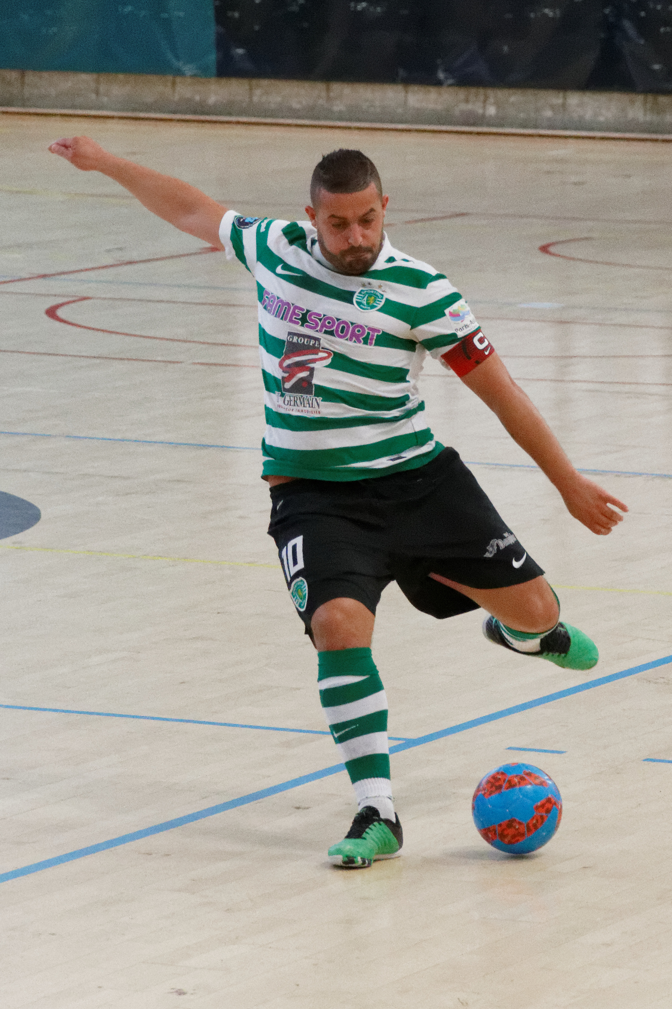 France futsal championship. Play-off. Sporting Club de Paris vs Kremlin-Bicêtre United.